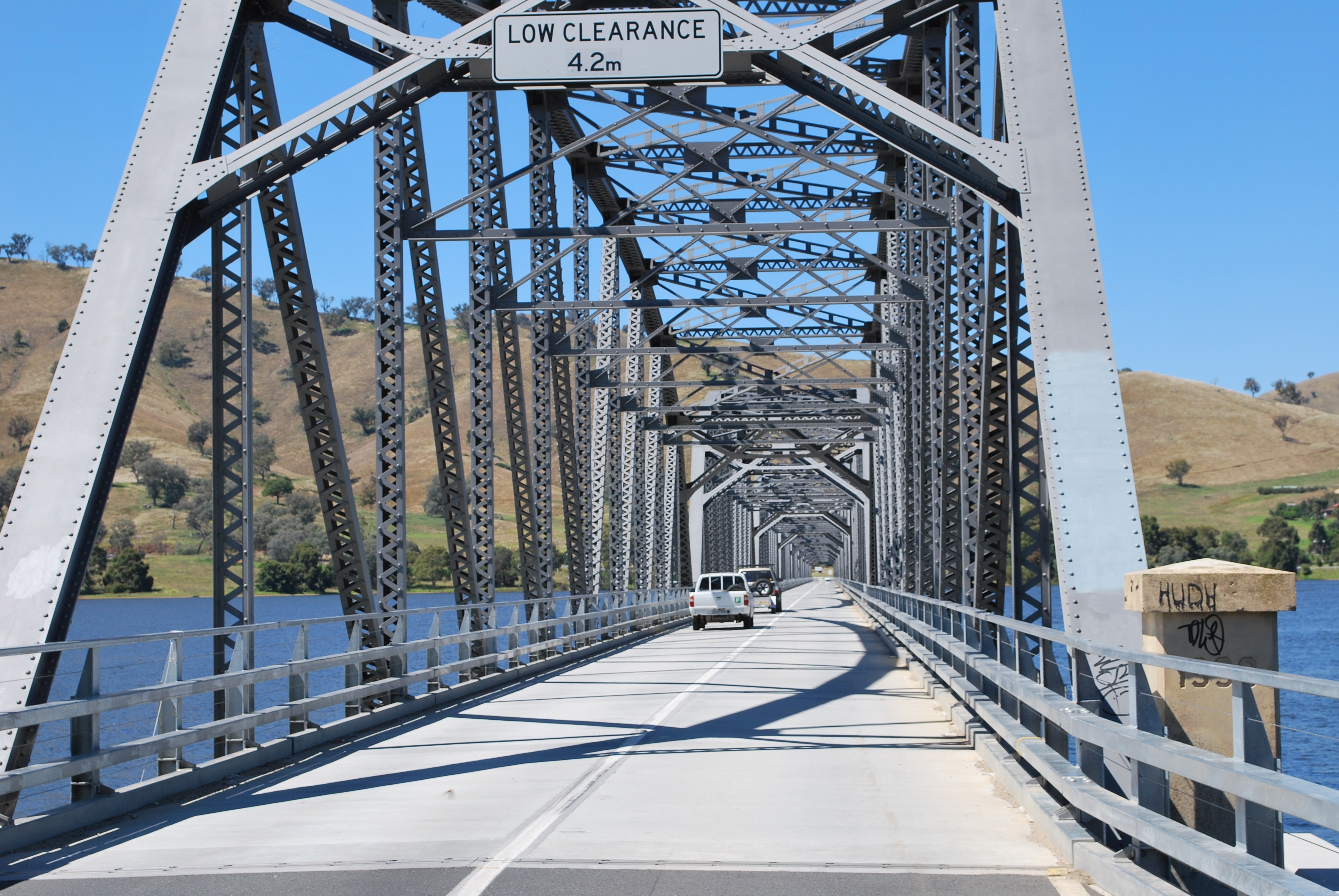 Bethanga Bridge in March 2010